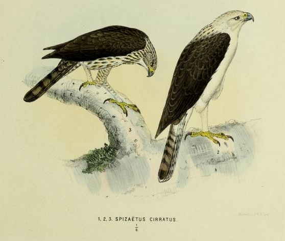 Flores hawk-eagle. In 1898 described as endemic subspecies from Flores by Hartert